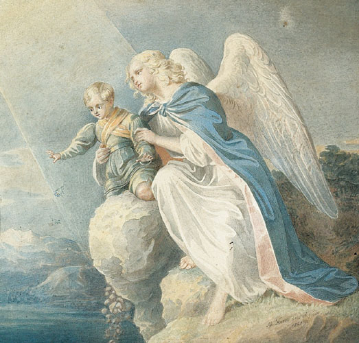 Matthäus Kern: Guardian angel, 1840, watercolours on cardboard, 18 x 18 cm